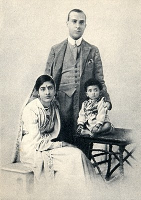 Jawaharlal Nehru with his wife Kamala and daughter Indira in 1918